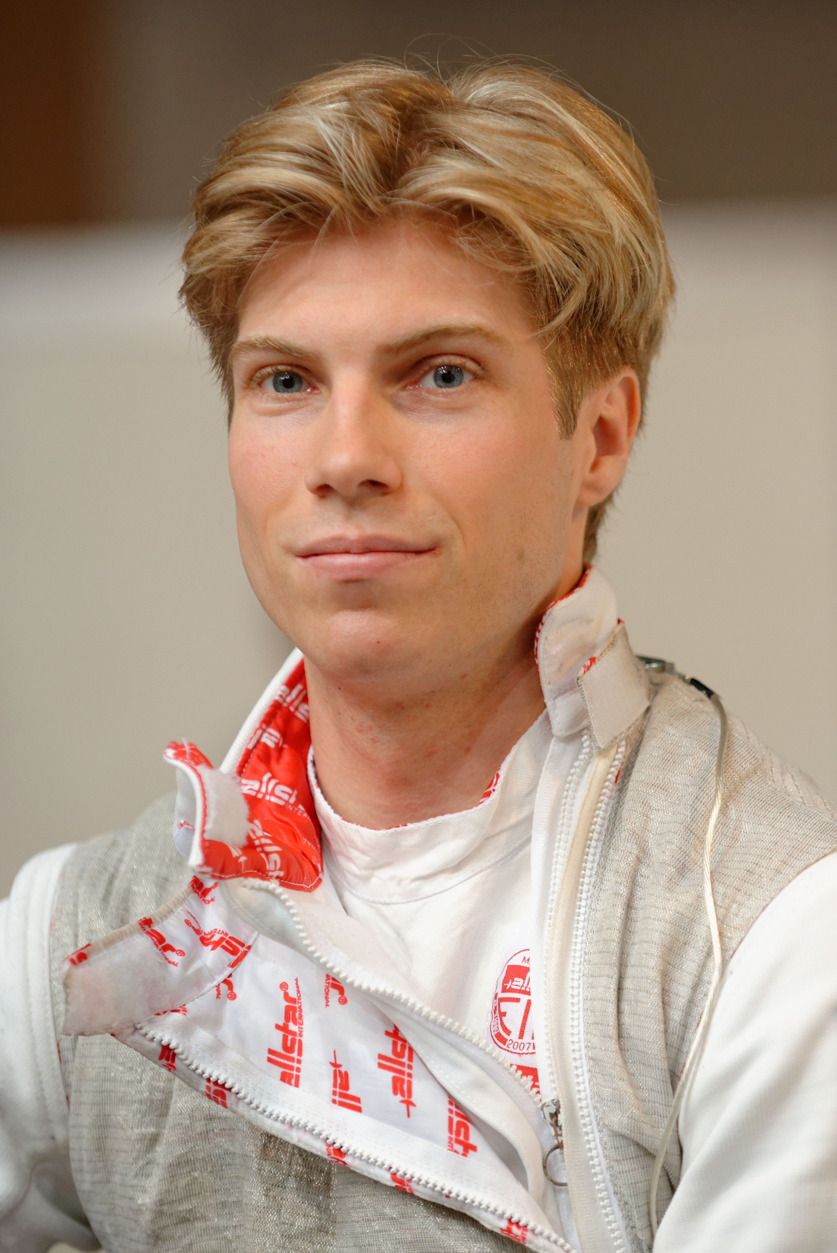 Germany's Peter Joppich in the men's foil event of the 2013 World Fencing Championships 2013 at Syma Hall in Budapest on 9 August 2013.